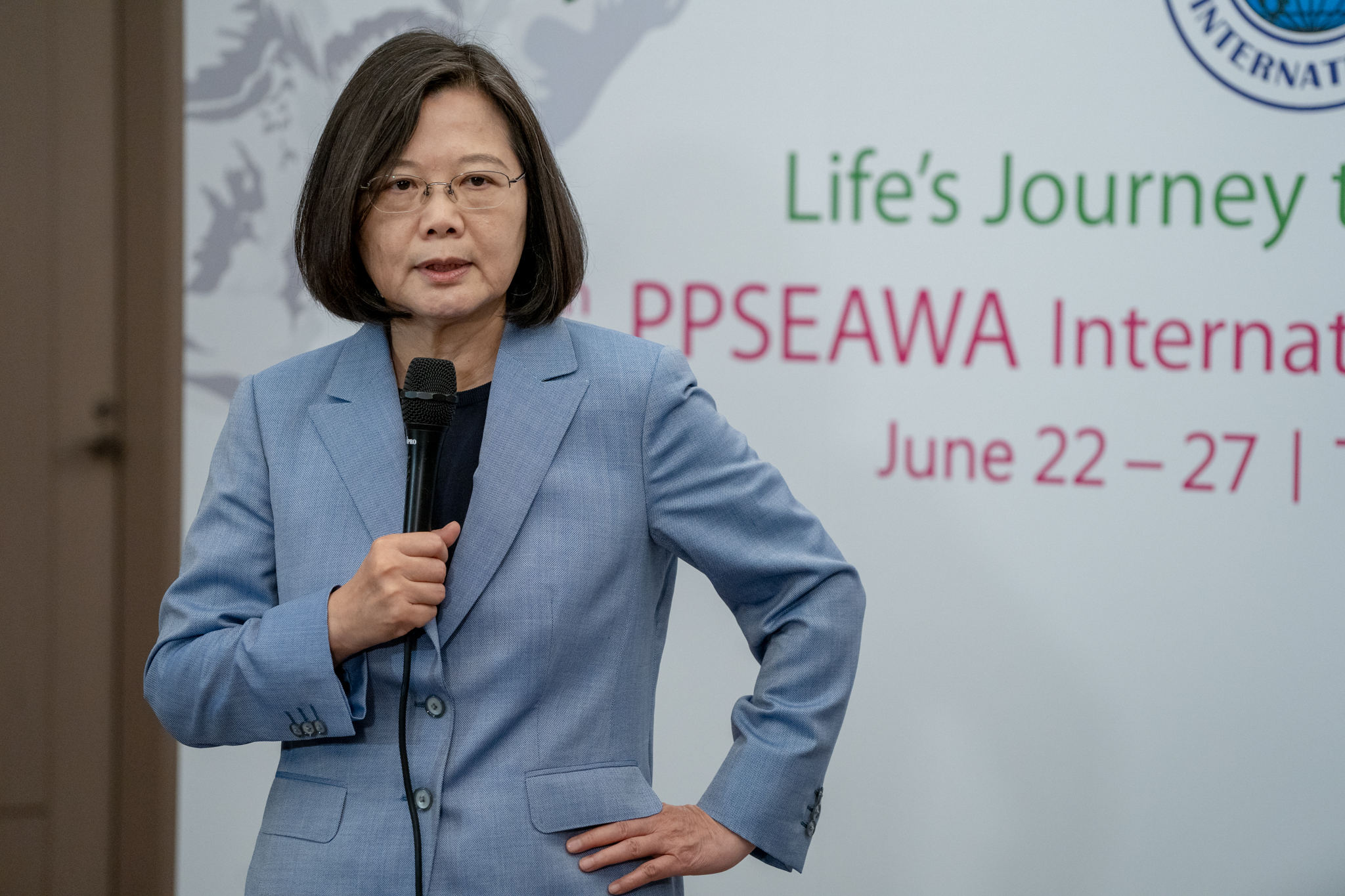 Official Photo by Wang Yu Ching / Office of the President